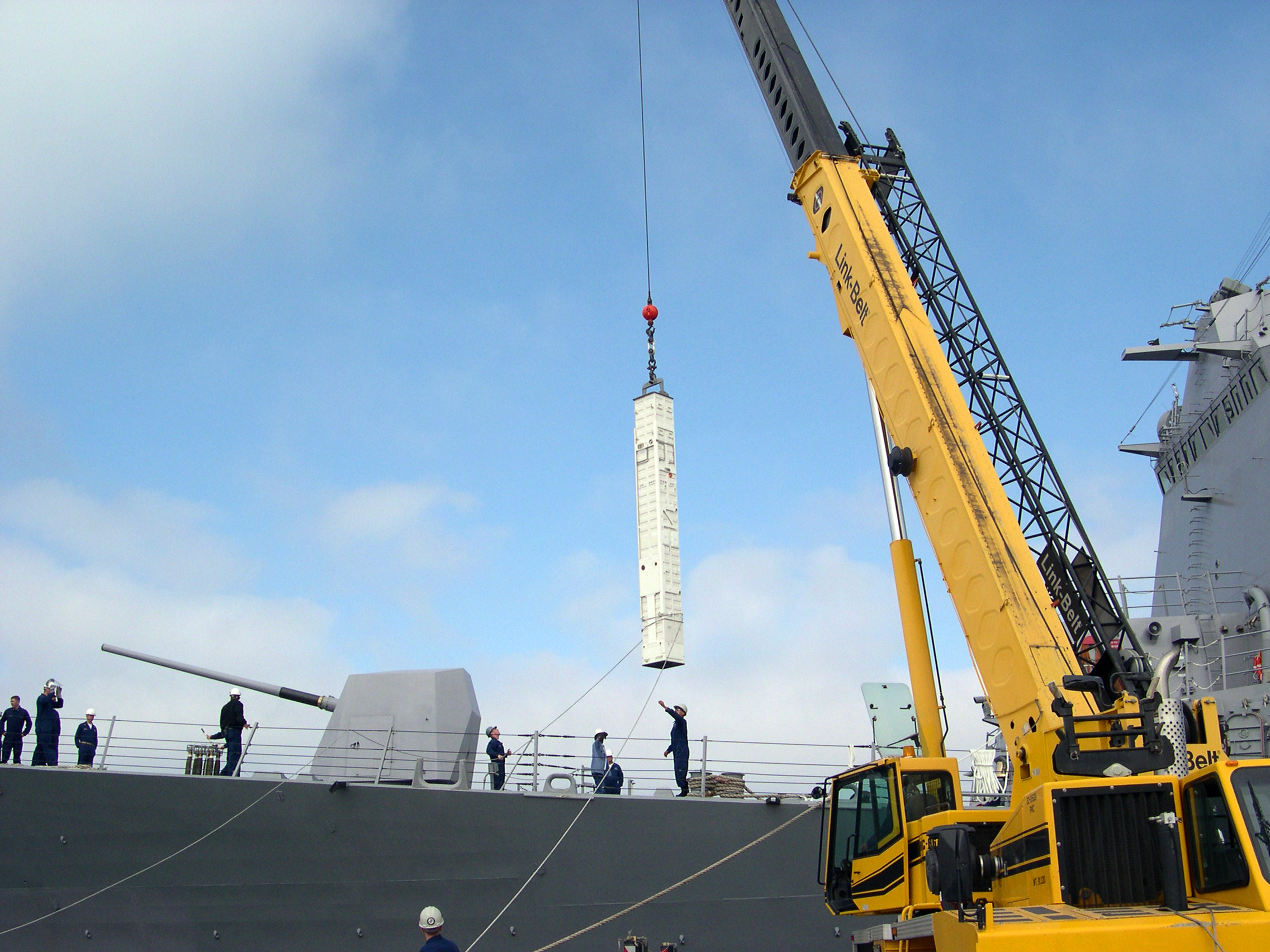 Naval Air Station North Island, Calif. (May 5, 2004) – A Crane lifts an Evolved Sea Sparrow Missile (ESSM) aboard the guided missile destroyer USS McCampbell (DDG 85). ESSM is an international cooperative upgrade of the RIM 7 NATO Sea Sparrow Missile. ESSM provides increased battle space against high-speed, highly maneuverable anti-ship missiles. Loaded in a "quad-pack" canister for the MK-41 vertical launch system (VLS), this tail-controlled missile with Thrust Vector Control, and a quick start guidance section, offers a significant increase in load-out, response time, and fire power. McCampbell is the first ship to deploy with the ESSM. U.S. Navy photo by Lt. j.g. Joel Jackson (RELEASED)